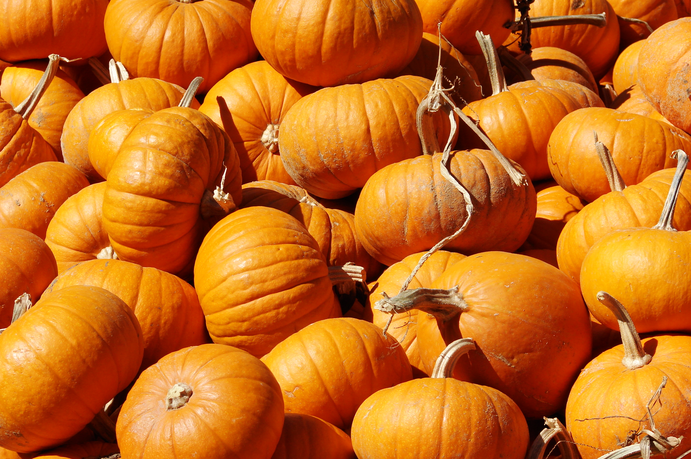 Pumpkins (Cucurbita).